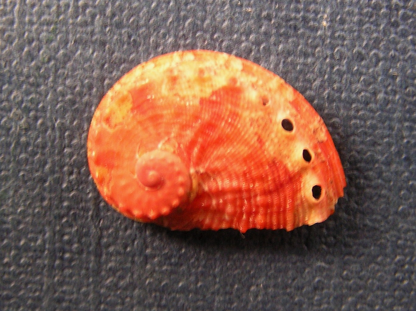 Haliotis thailandis Dekker & Pakamanthin, 2001, an abalone from the family Haliotidae; Philippines